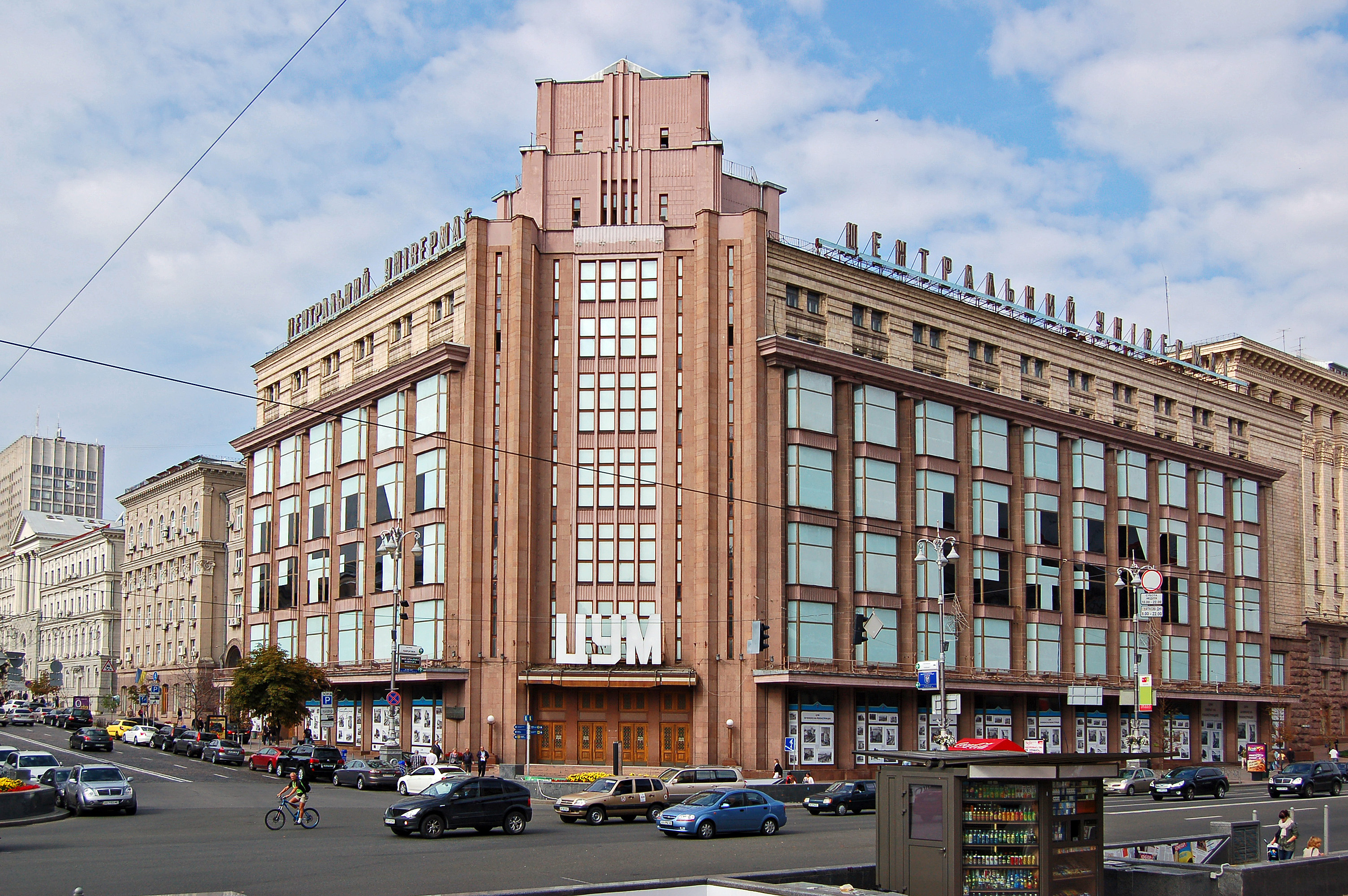 TSUM department store in Kyiv